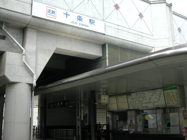 This photo is the Jujo station ,Kinki-Nippon Rail Road (KINTETSU), Kyoto City, Kyoto Pref.